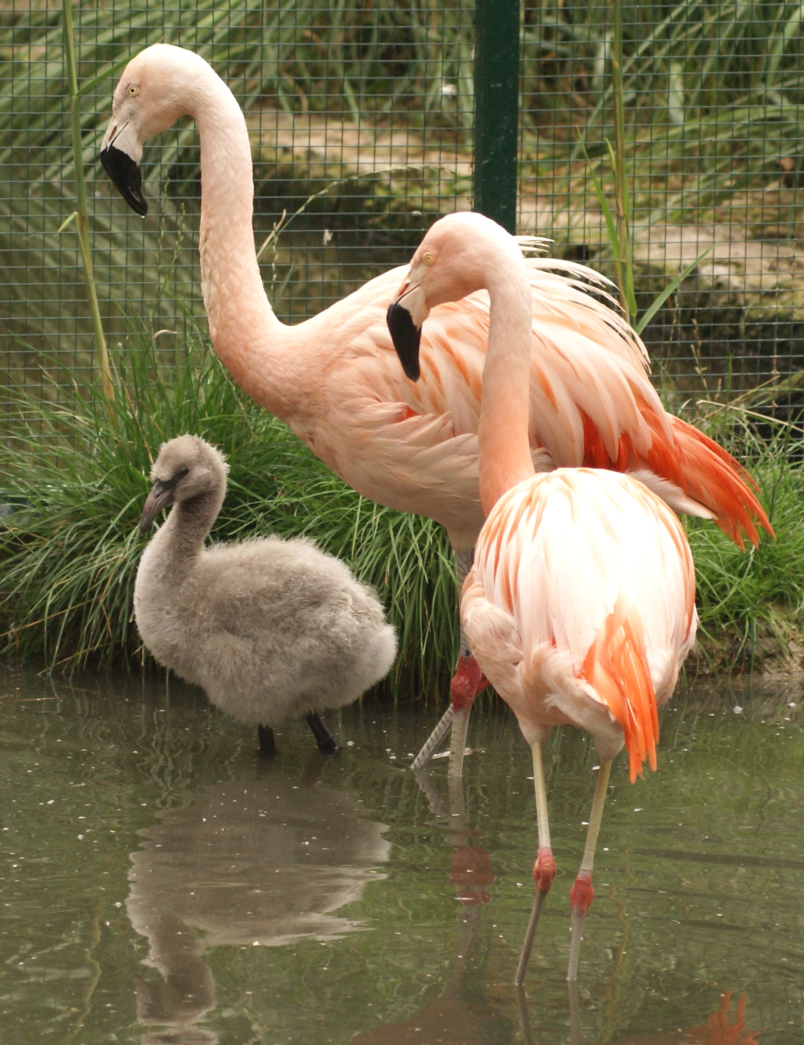 Chilean flamingo (Phoenicopterus chilensis), Tiergarten Bernburg, Germany